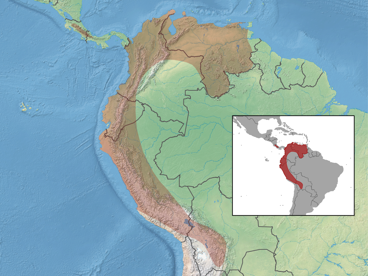 geographic distribution of Myotis oxyotus